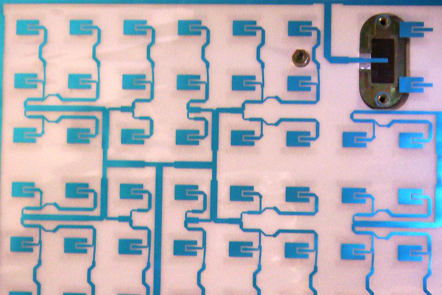 Flat printed circuit antenna array with microstrip feed network for satellite television reception.